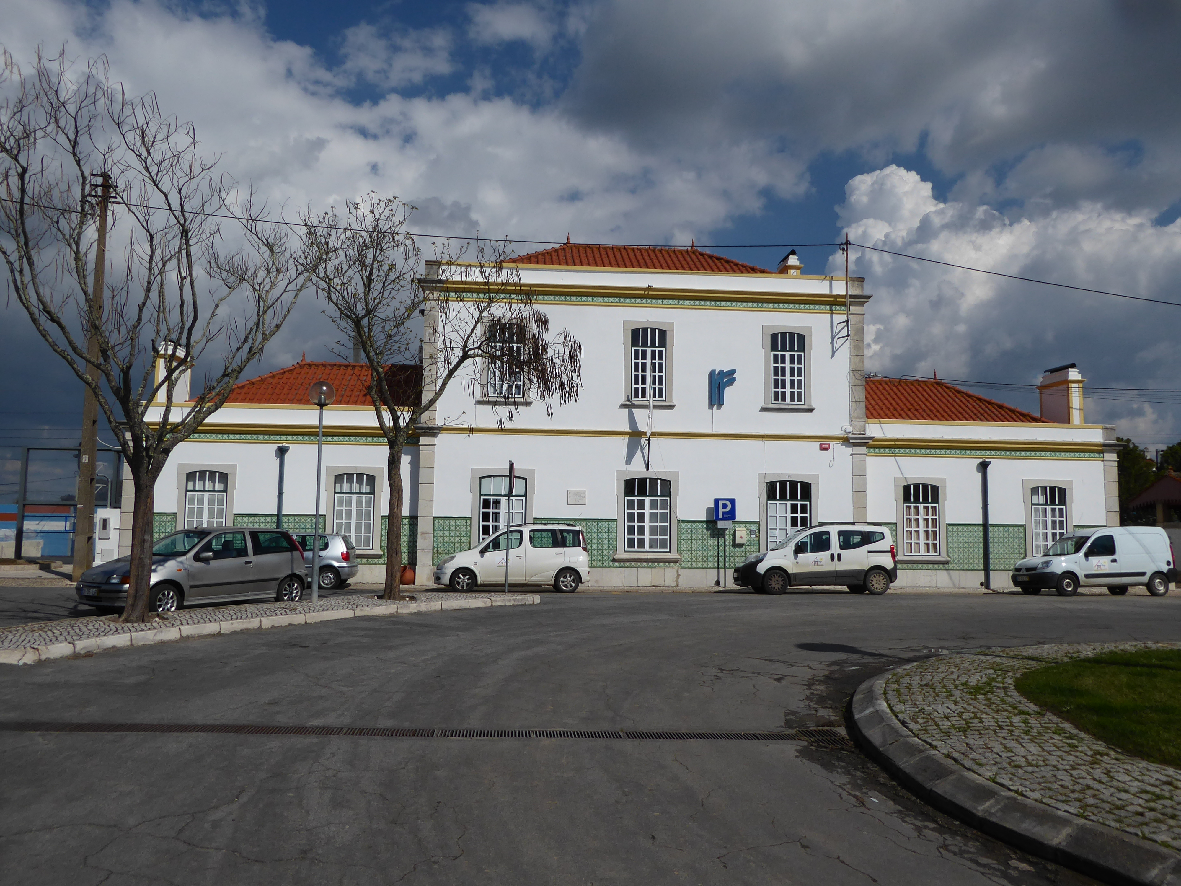 Grândola train station, Portugal